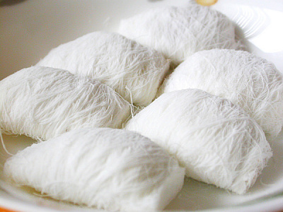 Kkultarae (Korean court cake), Korean equivalent of Chinese dragon's beard candy.